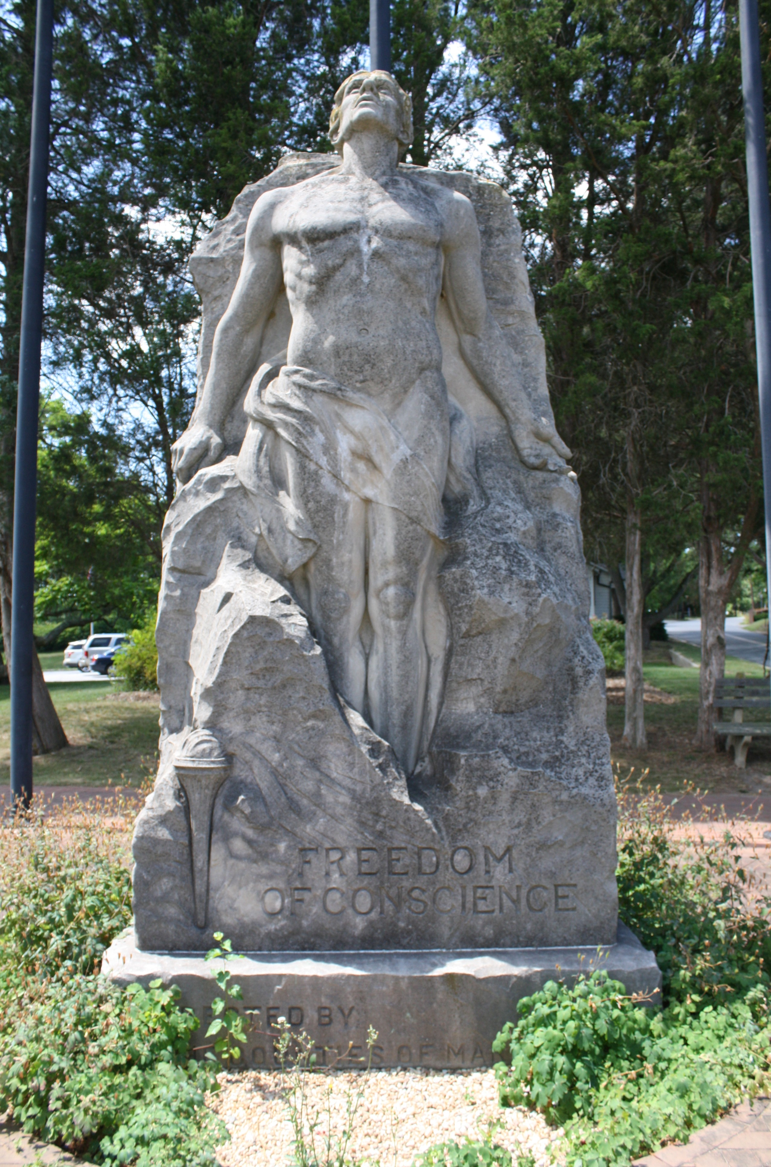 Freedom of Conscience statue on the campus of St. Mary's College of Maryland. The college is on the site of the original Maryland Colony, the place where religious freedom began in America. Photo, Elvert Barnes, 14 June 2011.